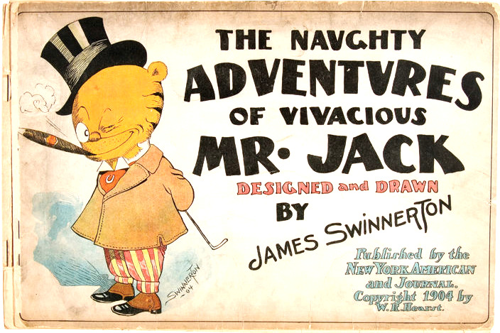 The Naughty Adventures of Vivacious Mr. Jack designed and drawn by James Swinnerton, published by the New York American and Journal.